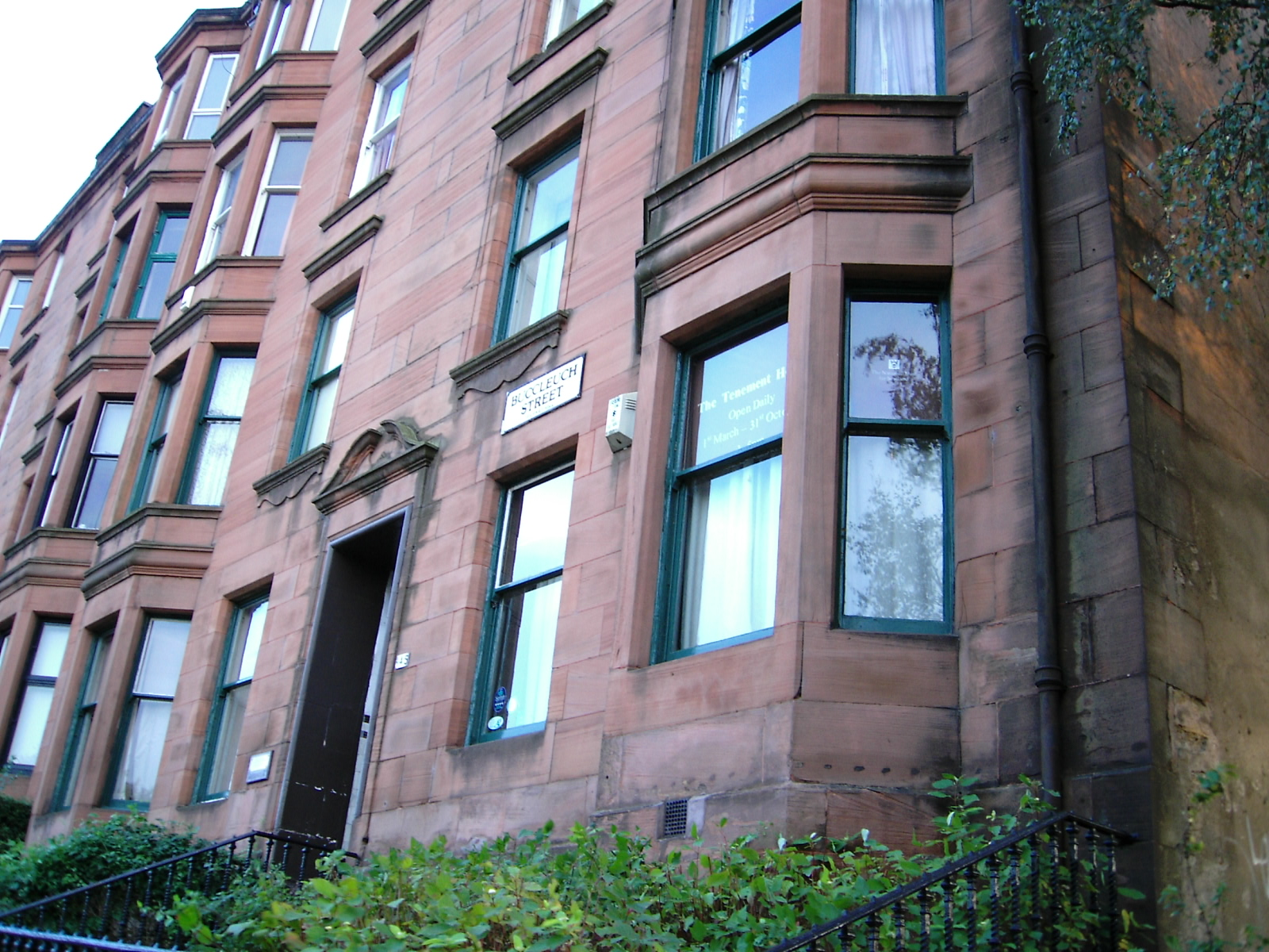 The Tenement House (a museum displaying an original tenement flat), Garnethill, Glasgow, Scotland. Made by User:Twid on 16 October 2005.